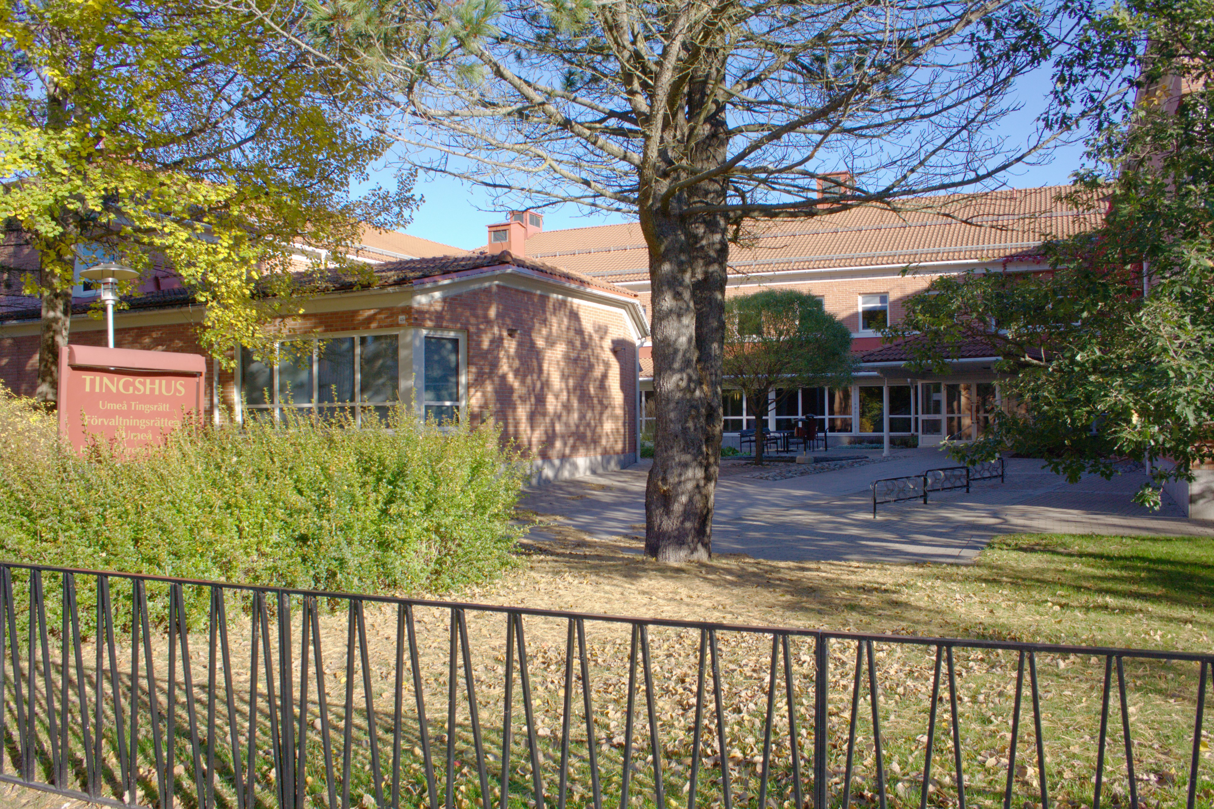 District Court of Umeå, Sweden